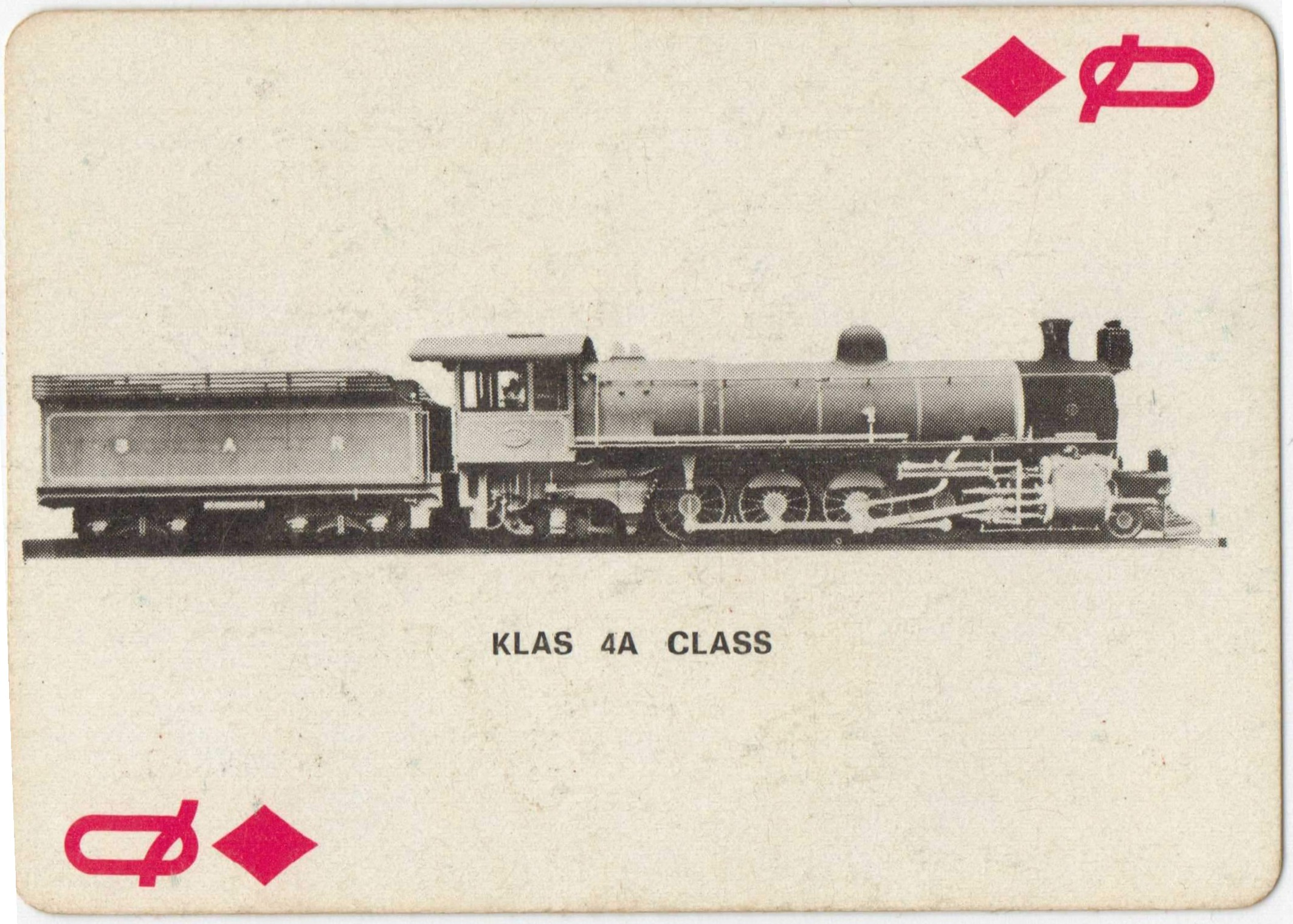 SAR Museum Playing Cards – Diamond Queen Class 4A (4-8-2)